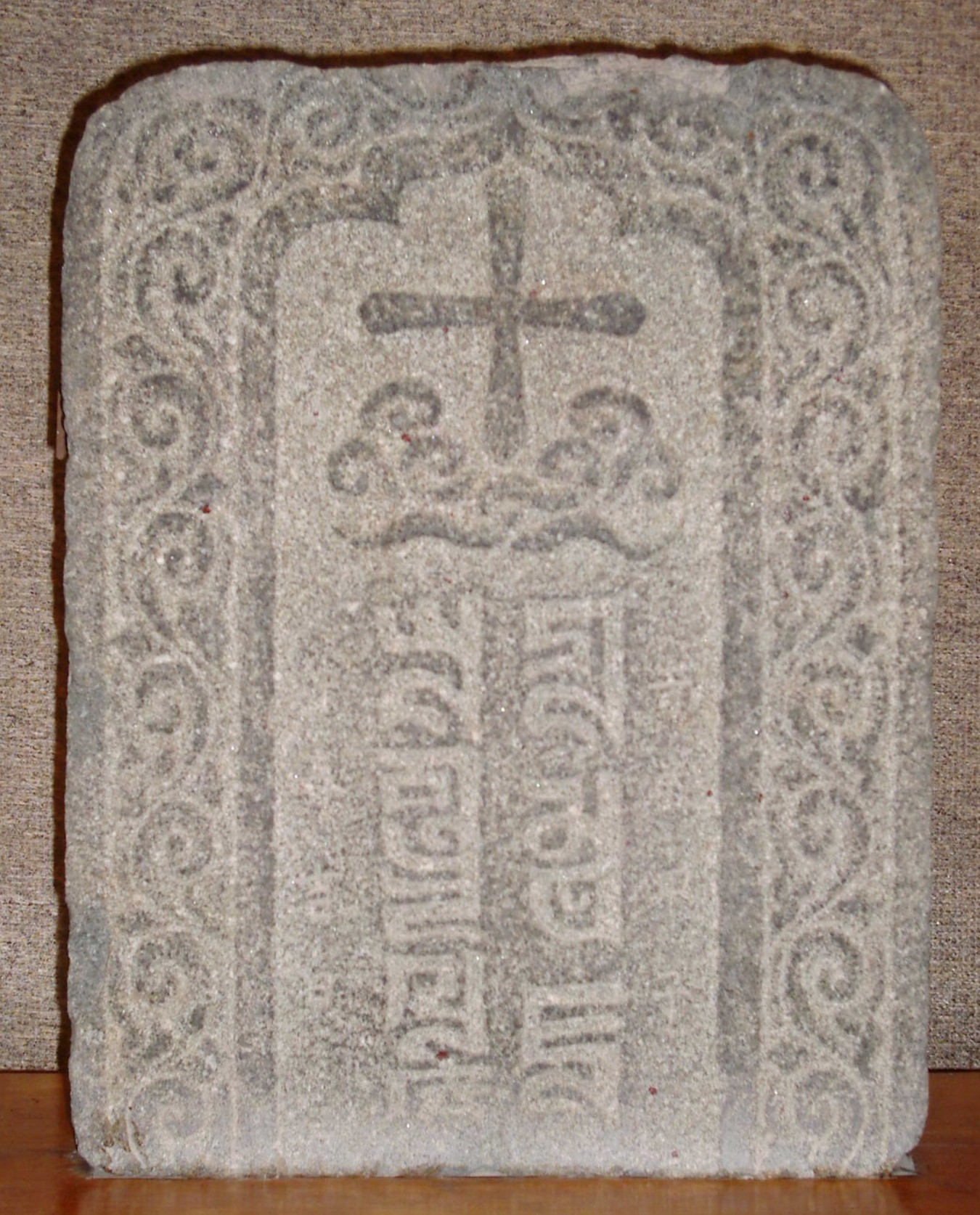 Gravestone of Liu Yigong with Phags-pa inscription (dated 1324), from Quanzhou, China.Phags-pa inscription: ꡗꡞ ꡂꡟꡃ ꡙꡞꡓ ꡚꡞ ꡏꡟ ꡆꡞ [yi gung liw shi mu ji = yìgōng (liú/liǔ)-shì mùzhì 易公(劉/柳)氏墓誌] "Tomb memorial of Liu Yigong".Chinese inscription on either side: 旹歲甲子 | 仲春吉日 [shìsuì jiǎzǐ | zhòngchūn jírì] "In the cyclical year jiazi [year of the wooden rat = 1324], on an auspicious day of the second spring month".